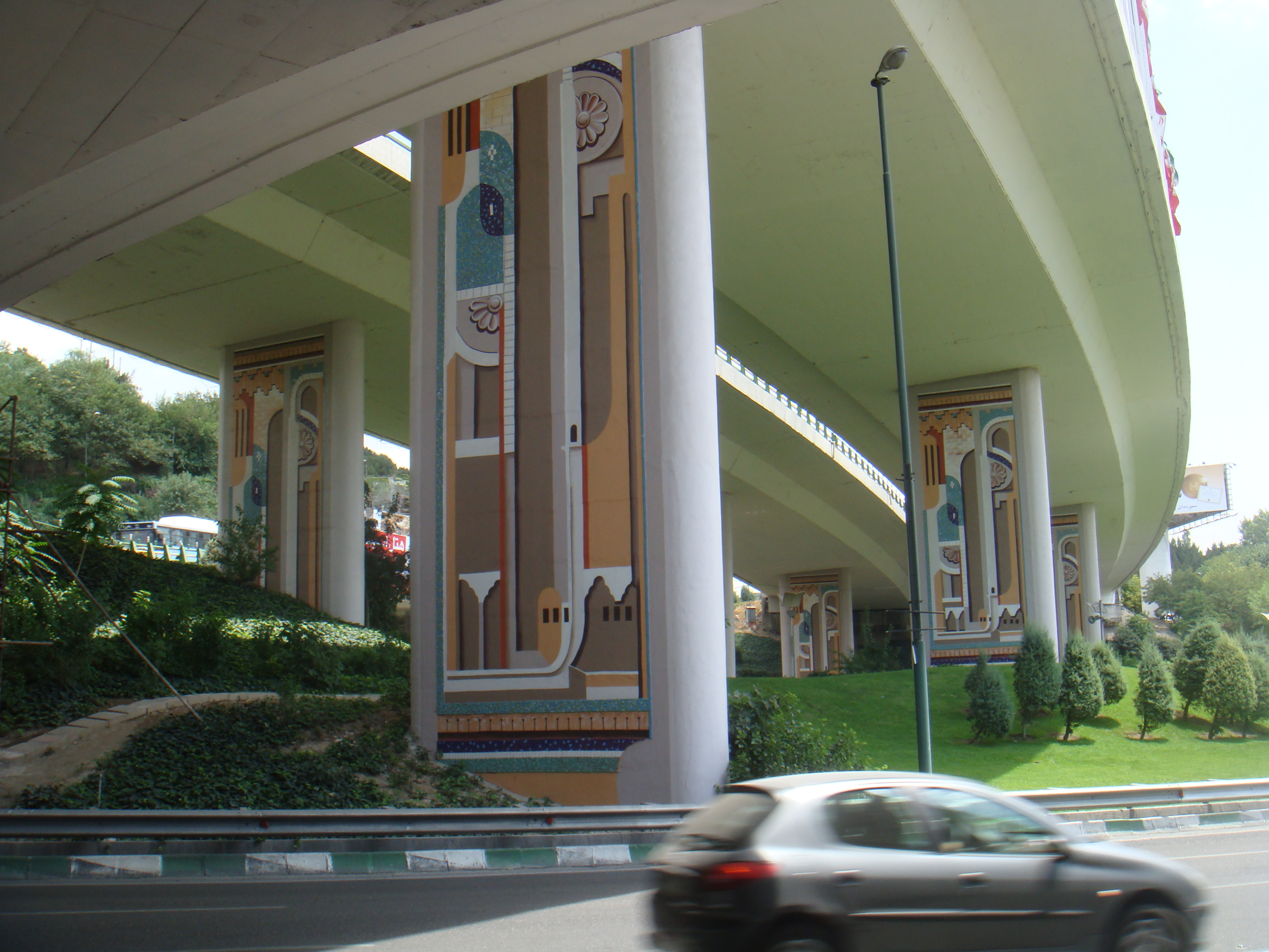 Shahid Hemmat Underpass, Tehran (Iran)